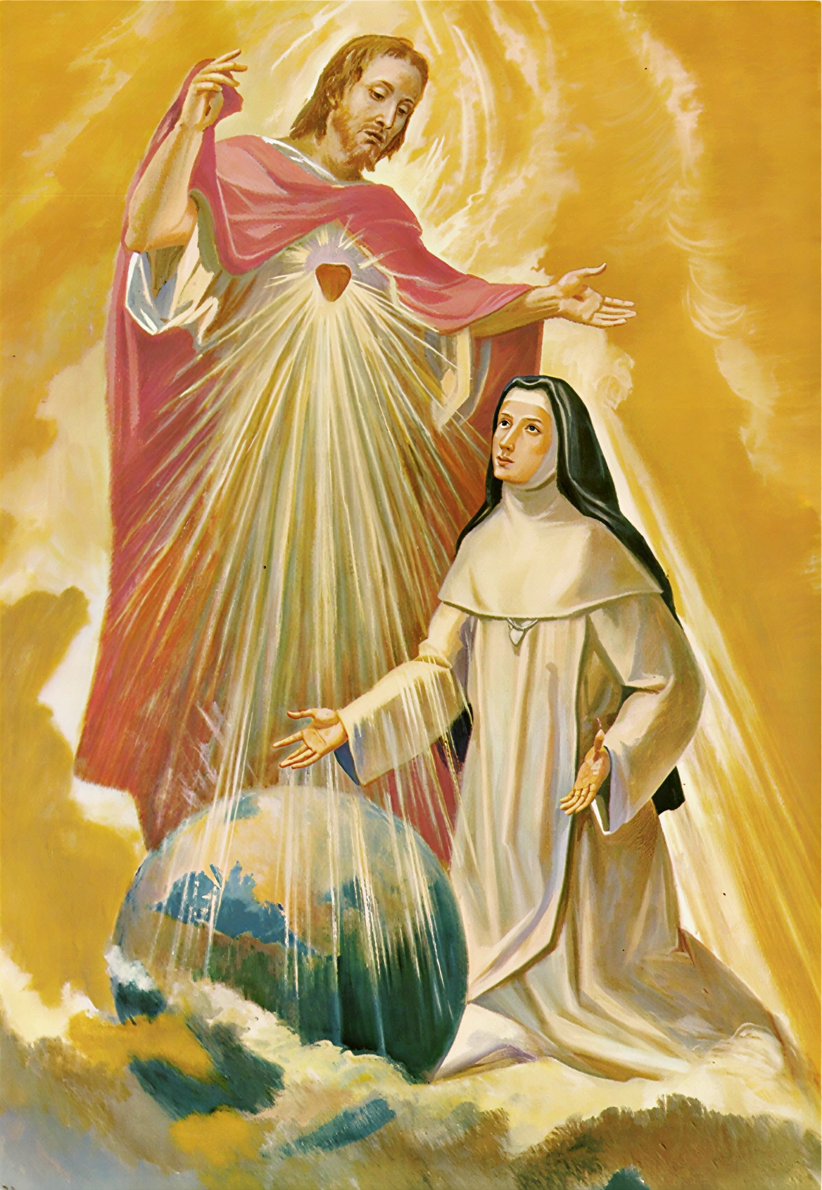 Ancient prayer prayer-card of the Sacred Heart of Jesus with Sister Mary of the Divine Heart Droste zu Vischering placed in the public domain by the Congregation of Good Shepherd Sisters.